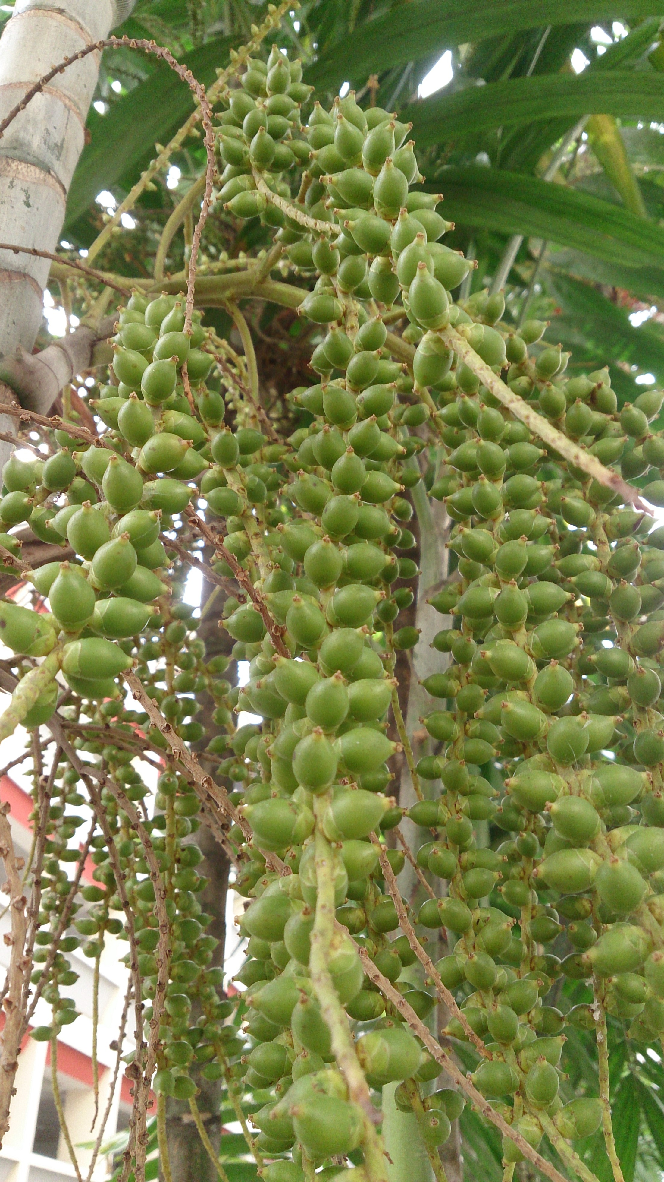 Ptychosperma macarthurii